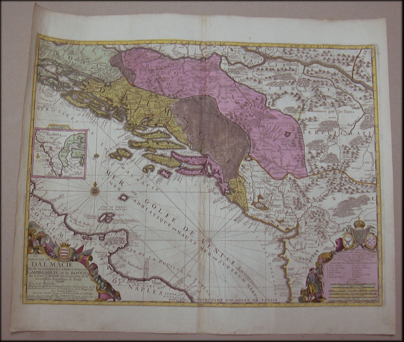 Geographic map of Dalmatia and Bosnia; Handmade; Dimensions: 53.5 × 63